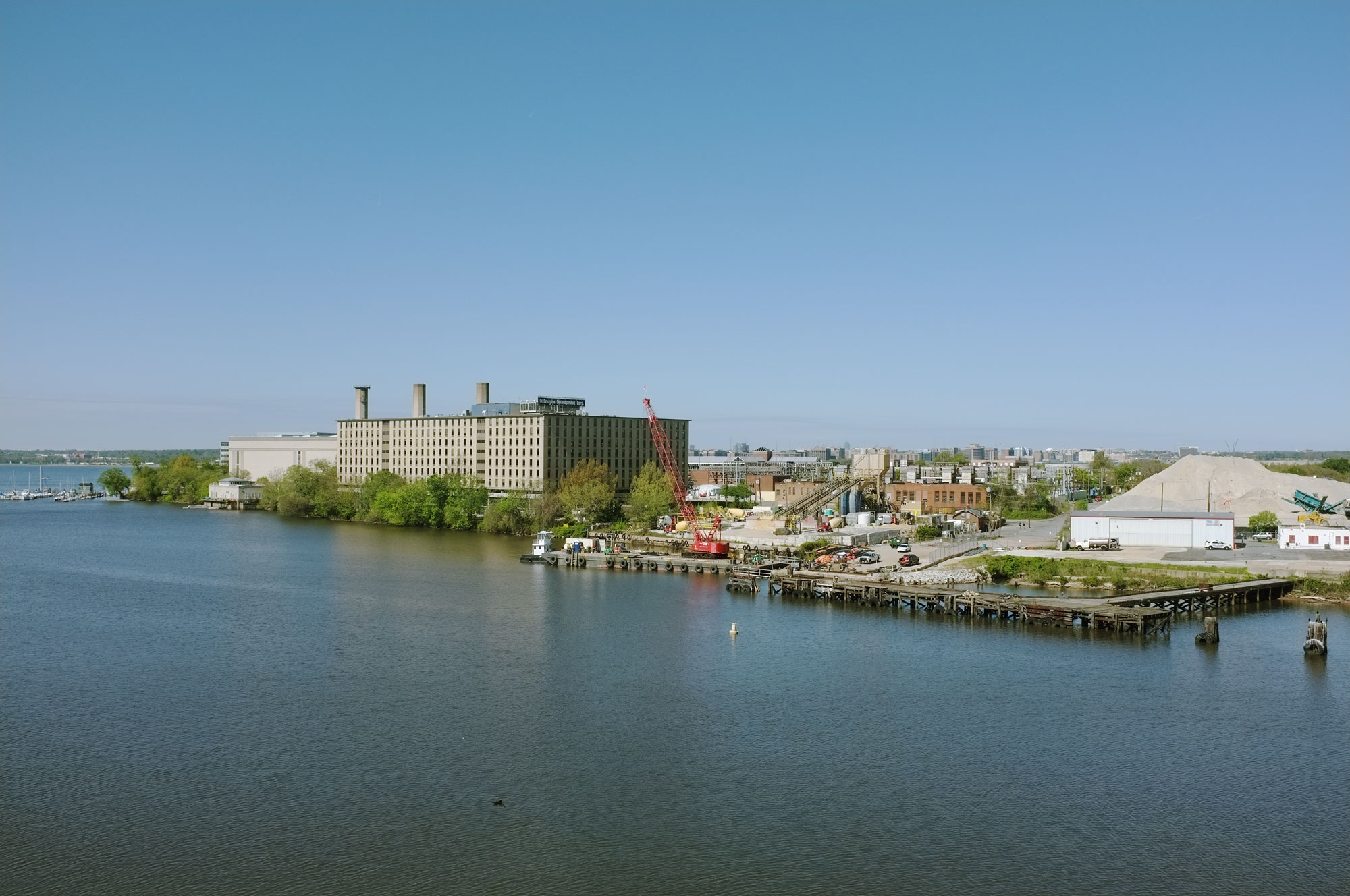 View of Buzzard Point Peninsula in Washington, D.C. and the Anacostia River.